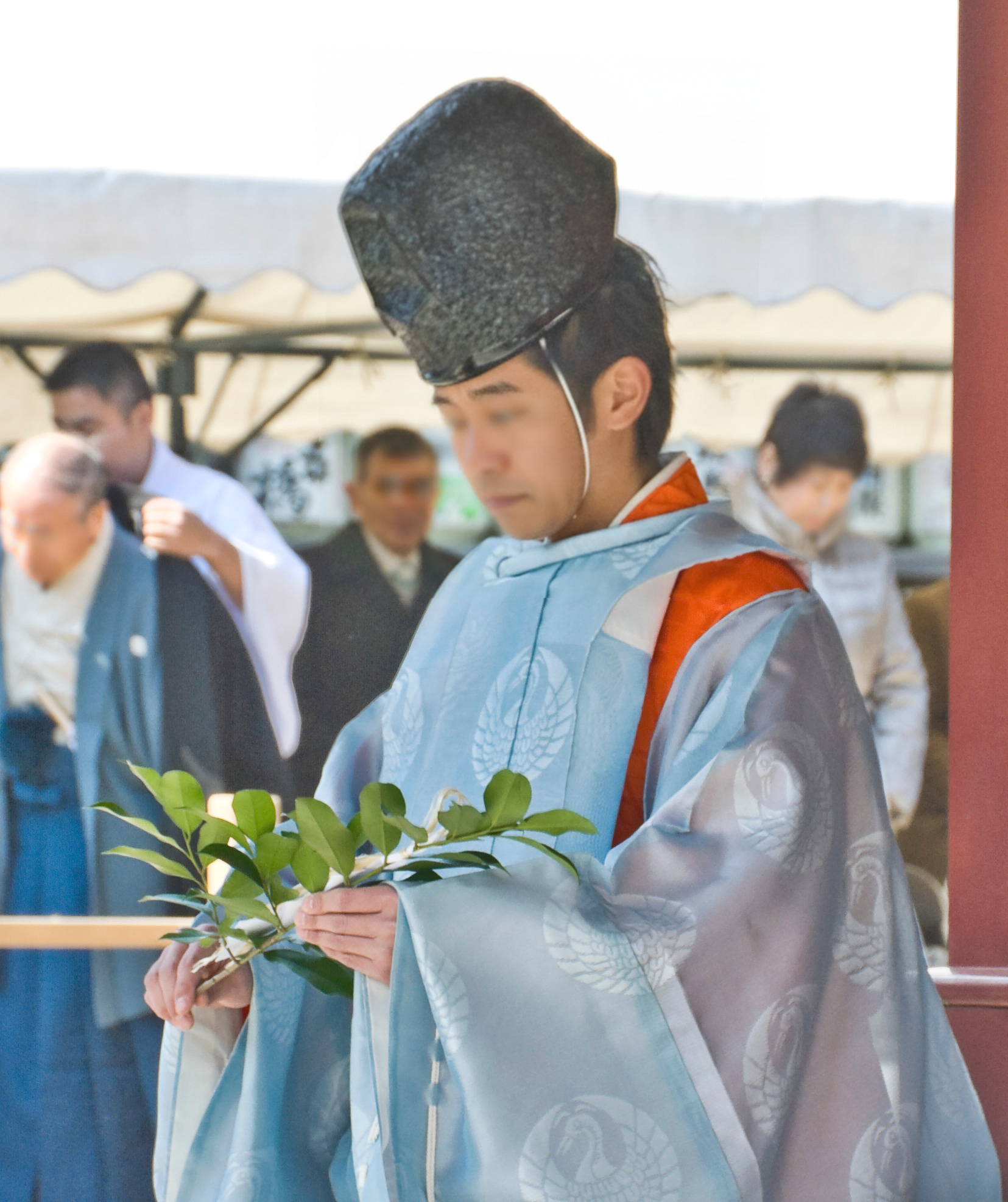 A Shinto priest (kannushi) with a "tamagushi", an offering made from a sakaki-tree branch and strips of paper, silk, or cotton.